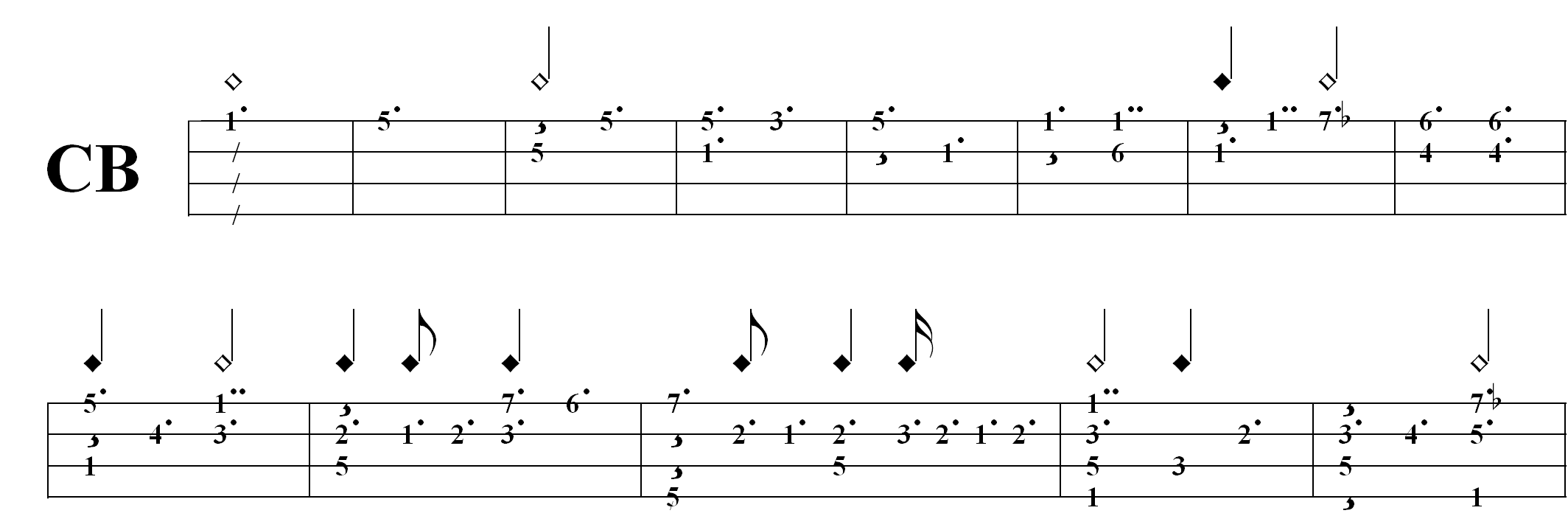 example of Spanish organ tablature, Francisco Correa de Arauxo: Tiento tercero de sexto tono